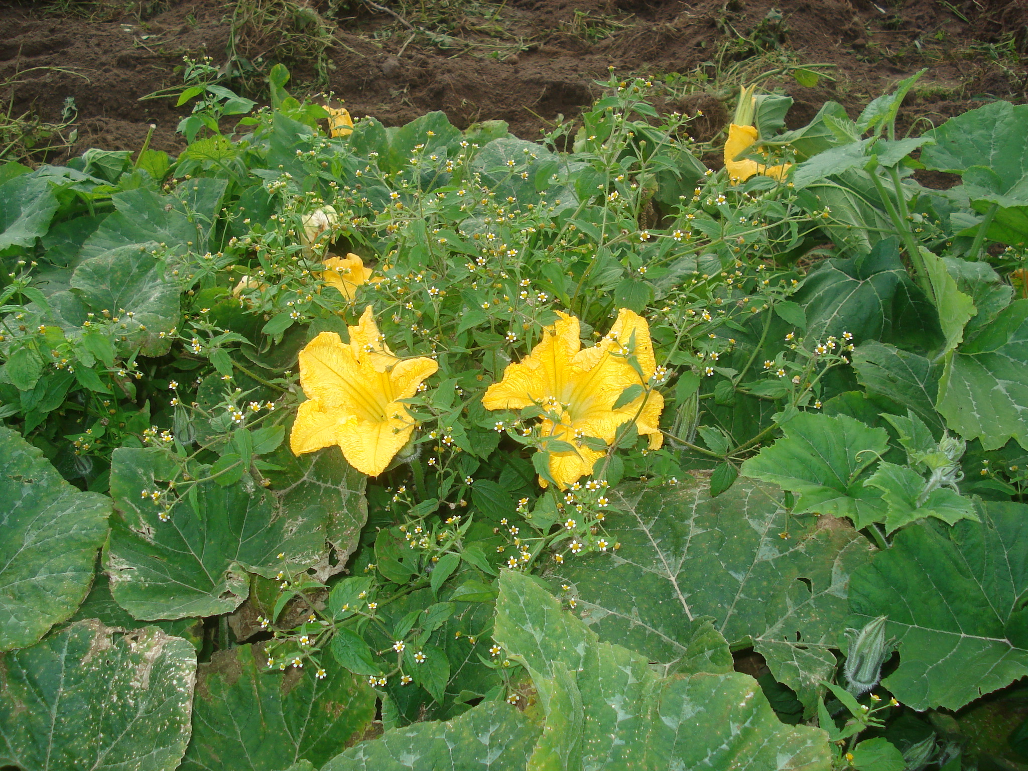 (Cucurbita pepo var. giromontina). Found in Berzi near Bauska city, Latvia